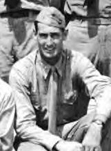 Picture of Baseball Hall of Famer, Ted Williams while serving in the United States Marine Corps.